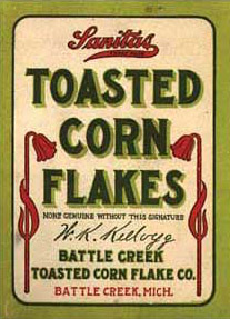 Very first corn flakes package from 1906